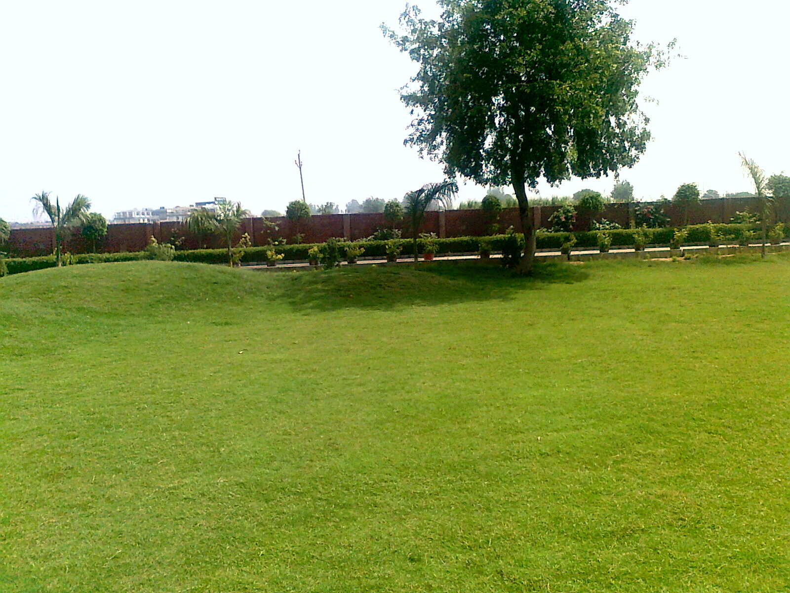 DIET Garden Area